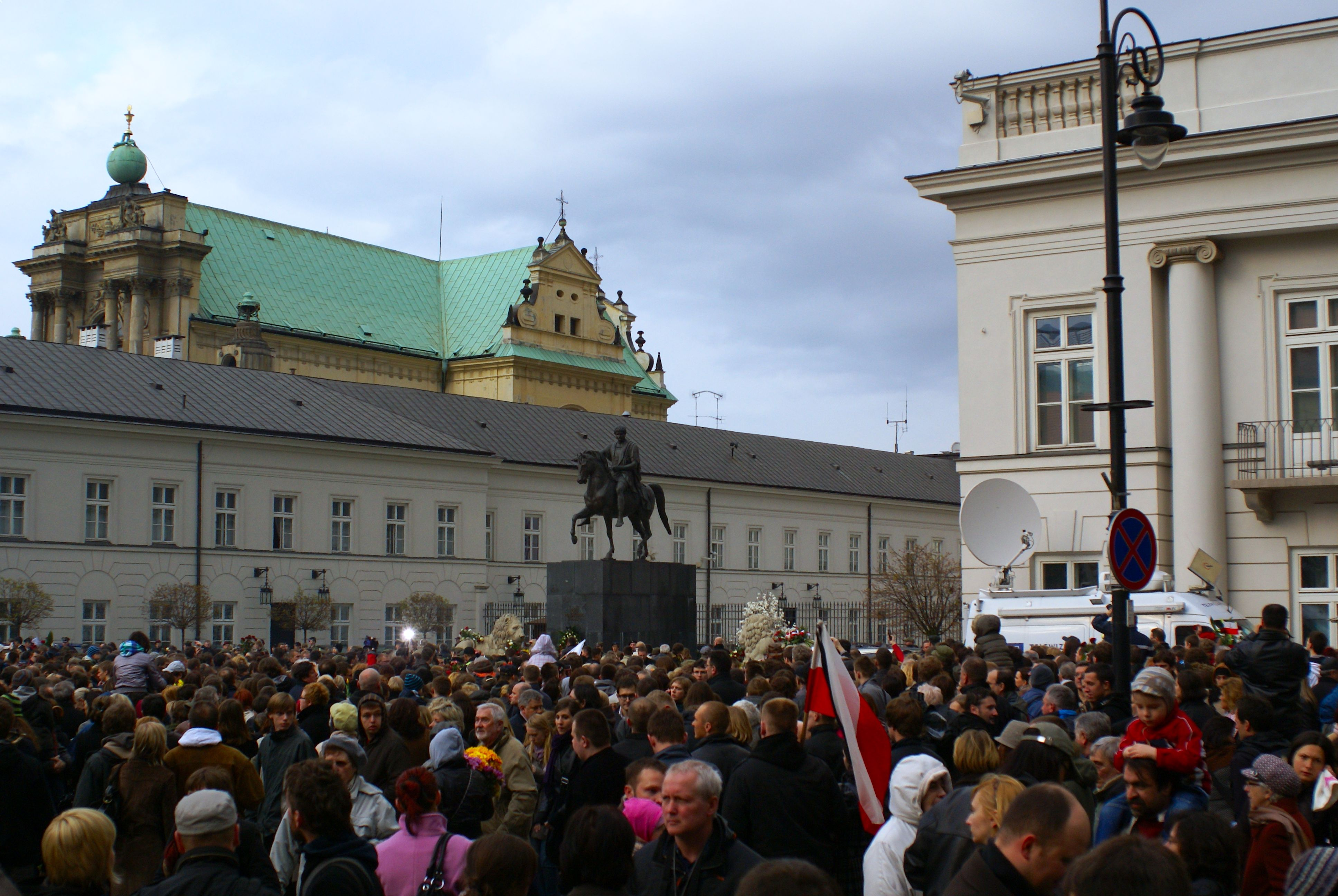 Warsaw after presidents plane crash. In front of presidential palace, Krakowskie przedmieście st.